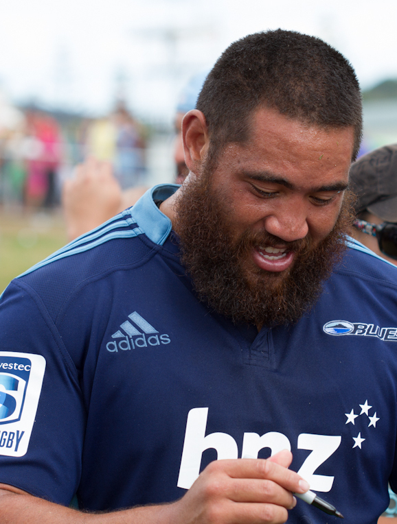 Blues V Tahs Pre Season